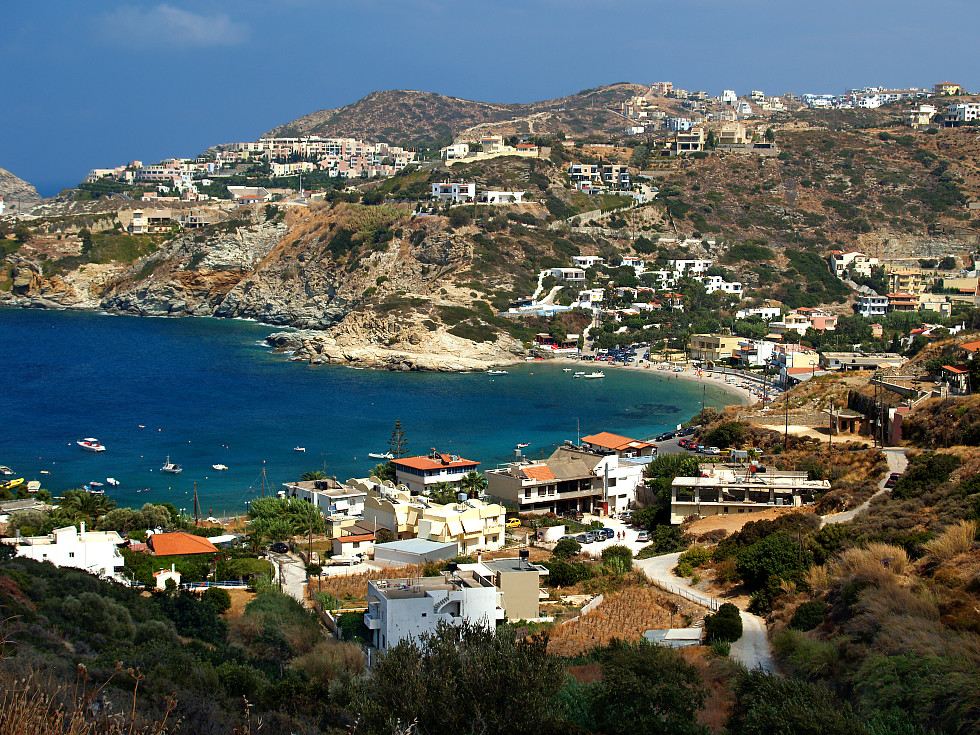 Ligaria, Agia Pelagia, Crete